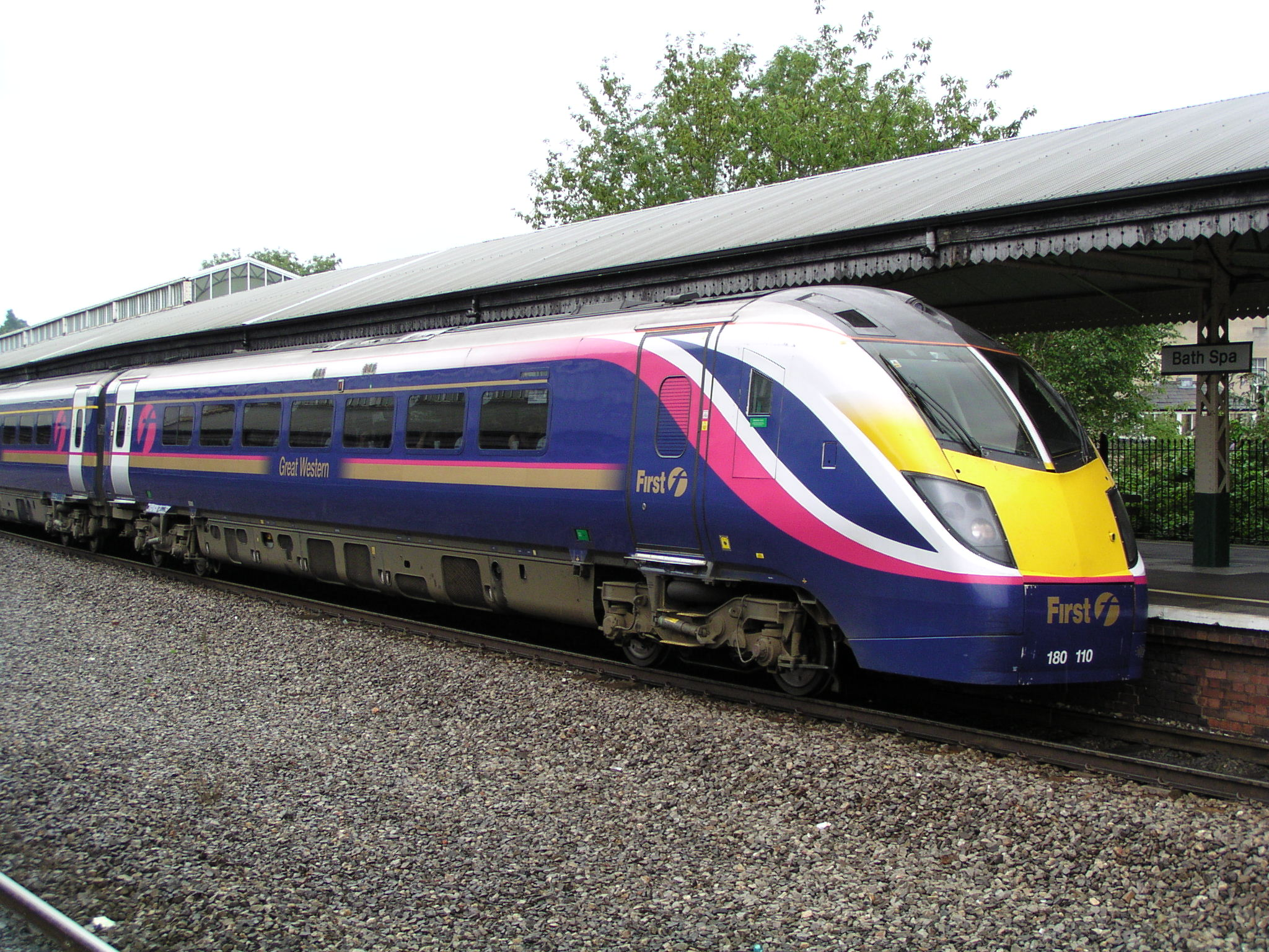 BR Class 180, no. 180110 at Bath Spa. This unit is operated by First Great Western and is pictured forming a service to London Paddington.